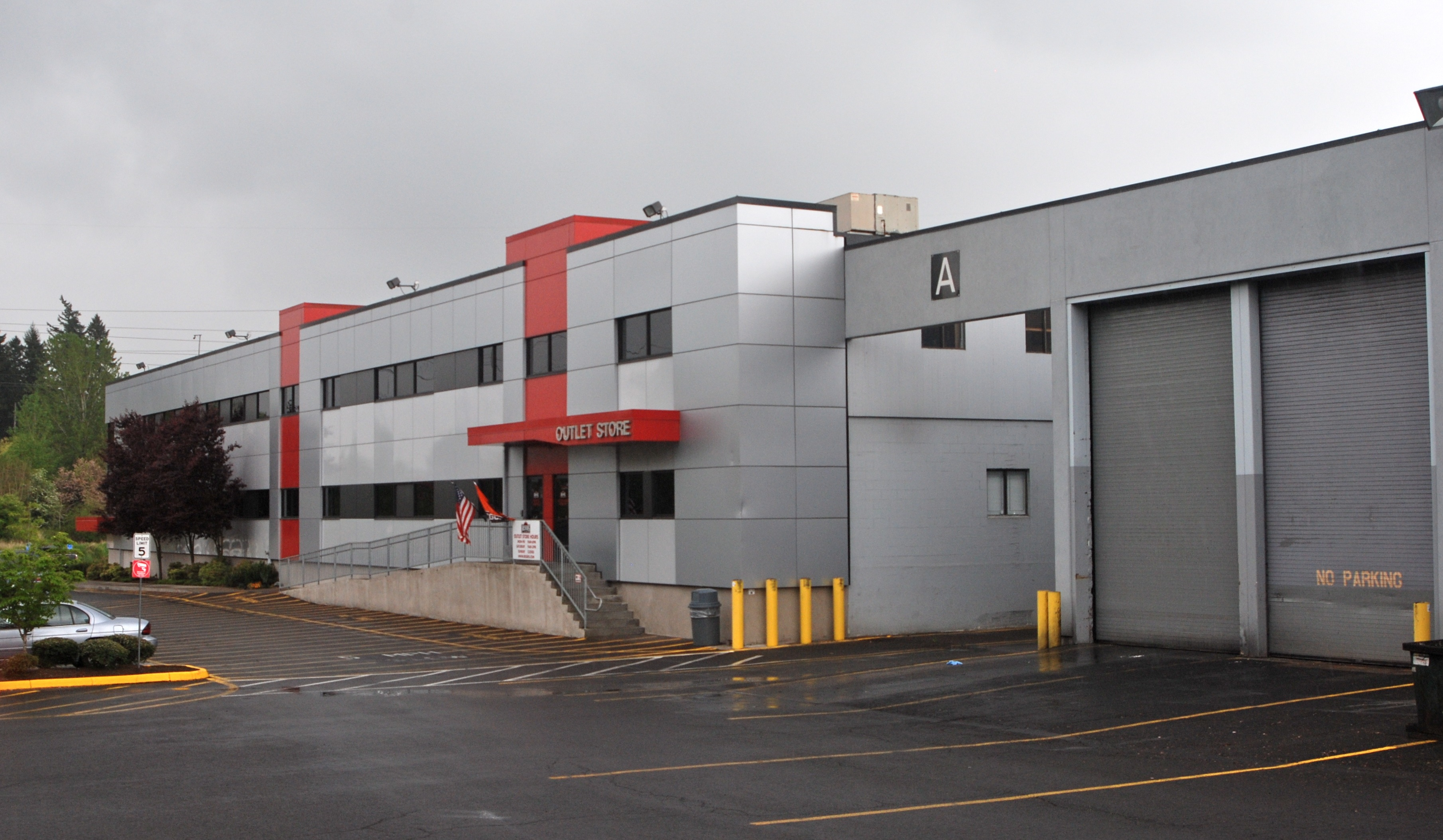 The headquarters of Reser's Fine Foods, in Beaverton, Oregon, also includes an outlet store.